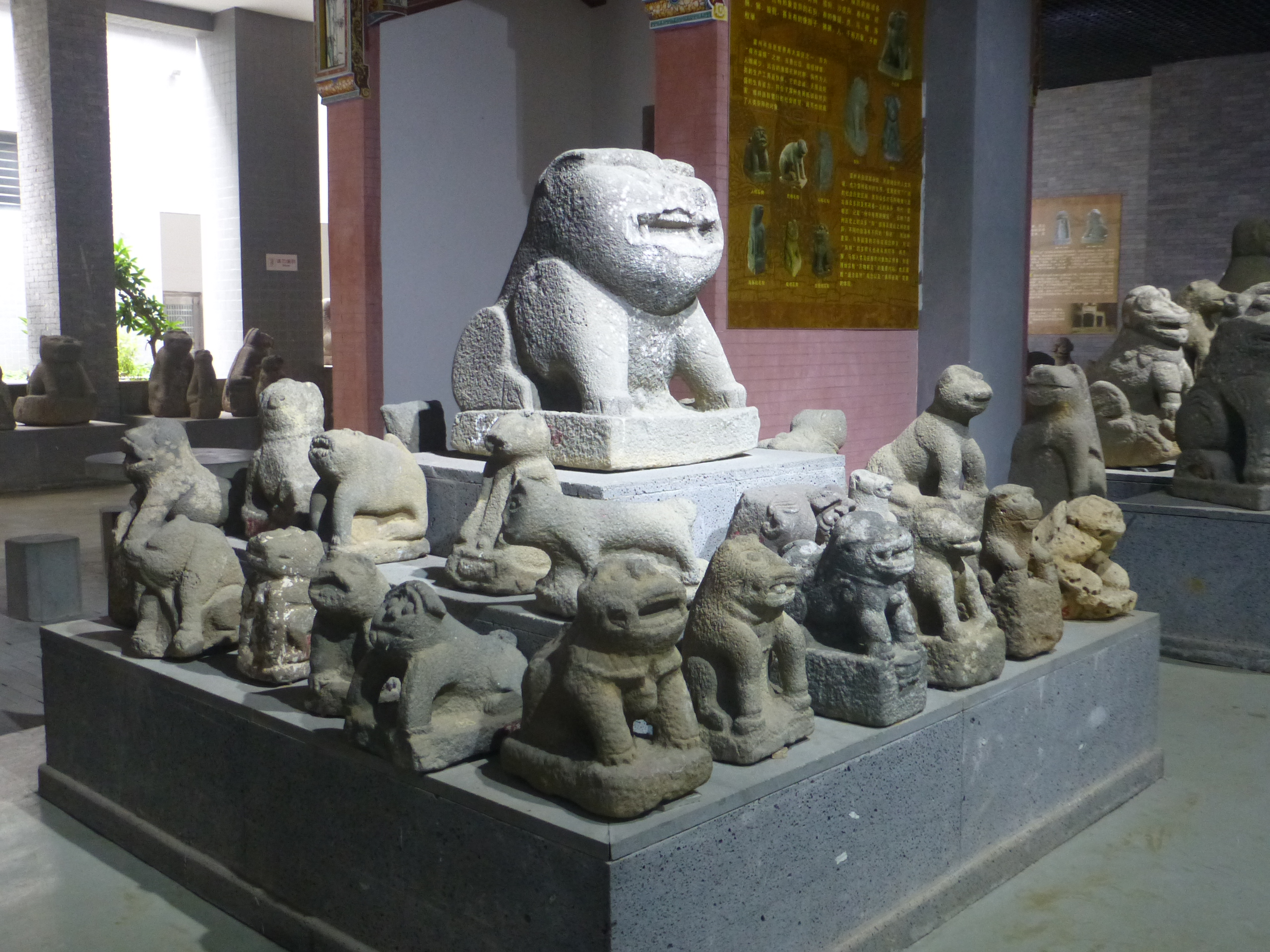 Stone dogs in the collection of Leizhou Museum. Leizhou City, Guangdong